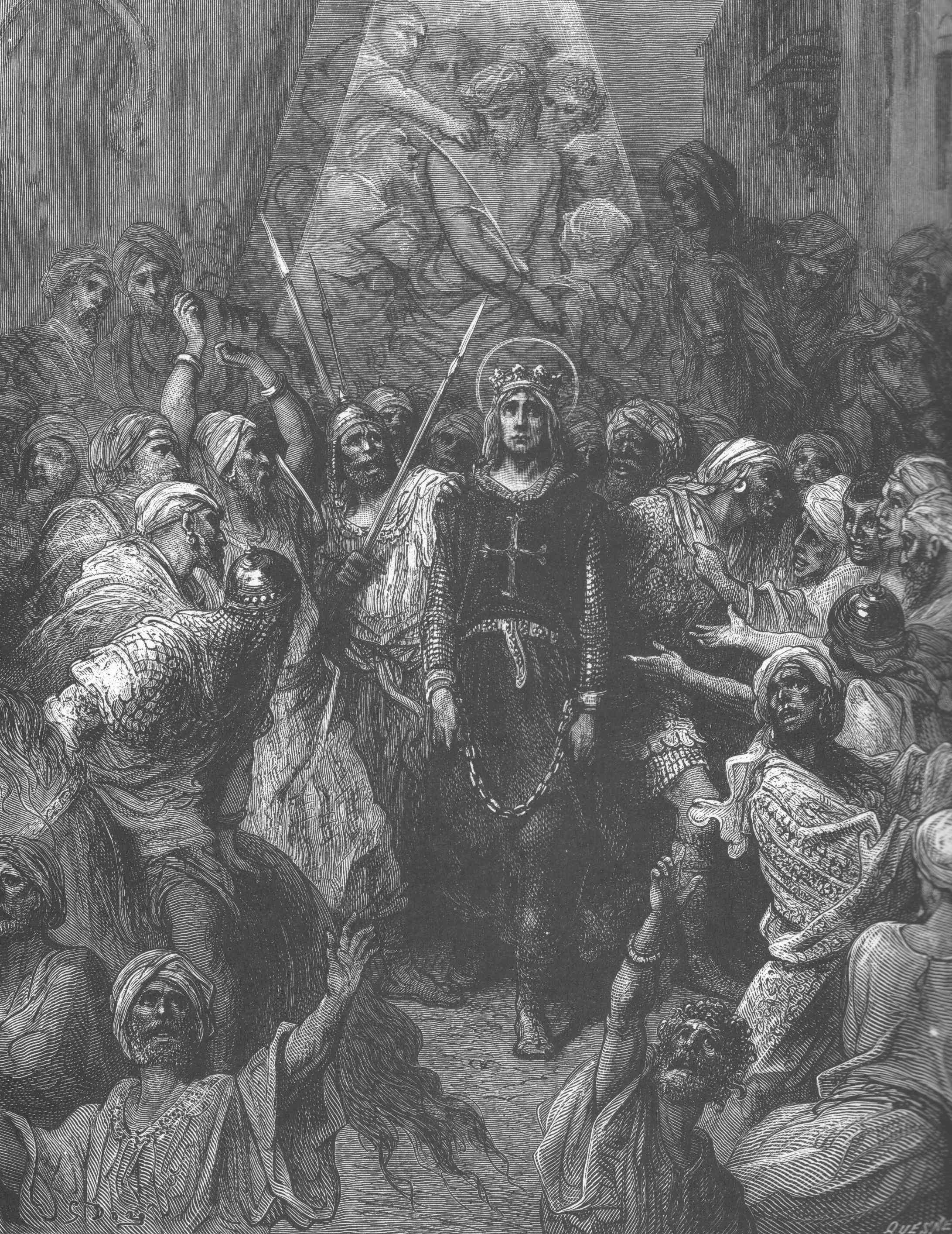 Saint-Louis taken prisoner 7th crusade